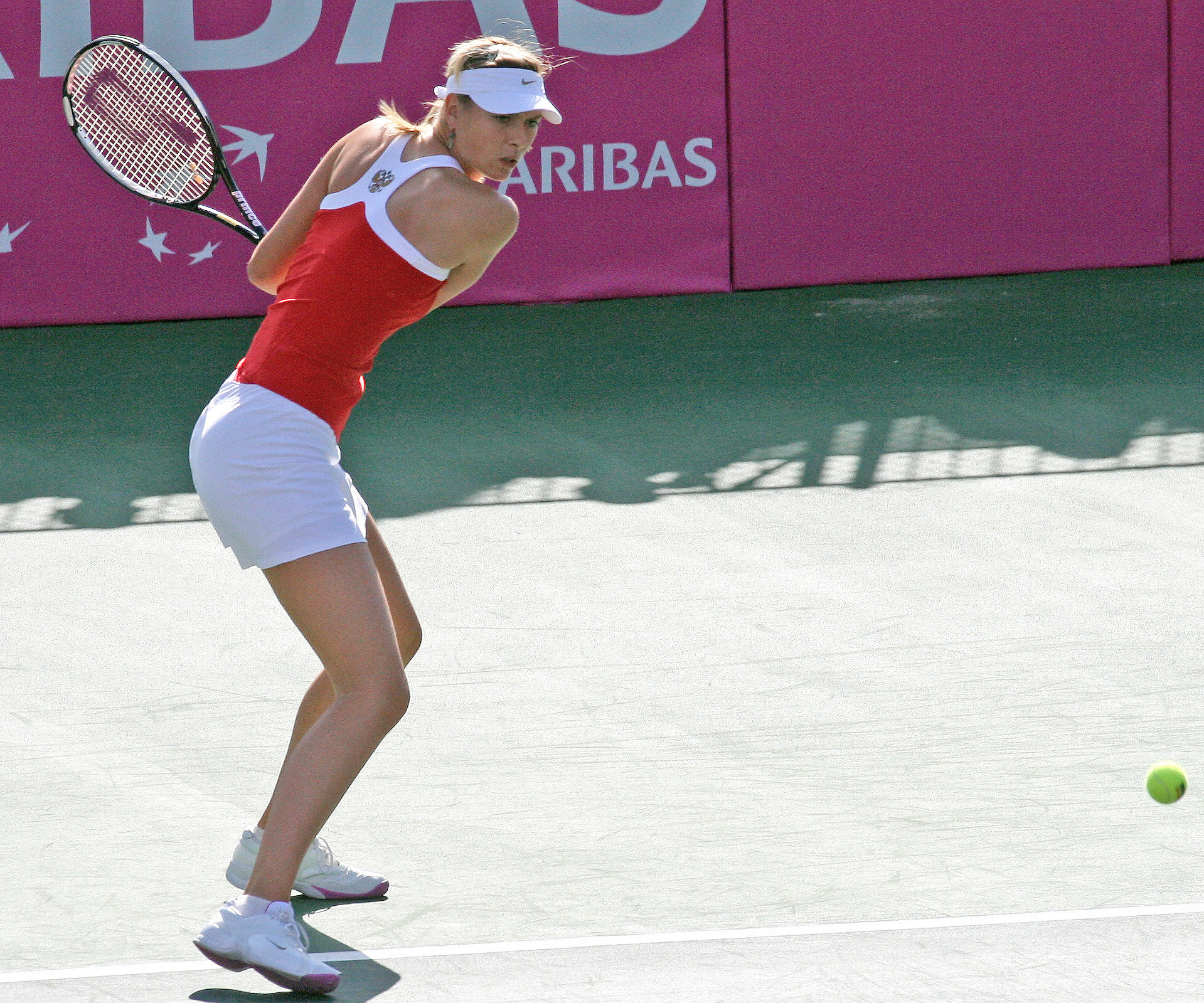 Maria Sharapova hitting backhand, Fed Cup match vs Tsipora Obziler, National Tennis Center, Ramat HaSharon, Israel